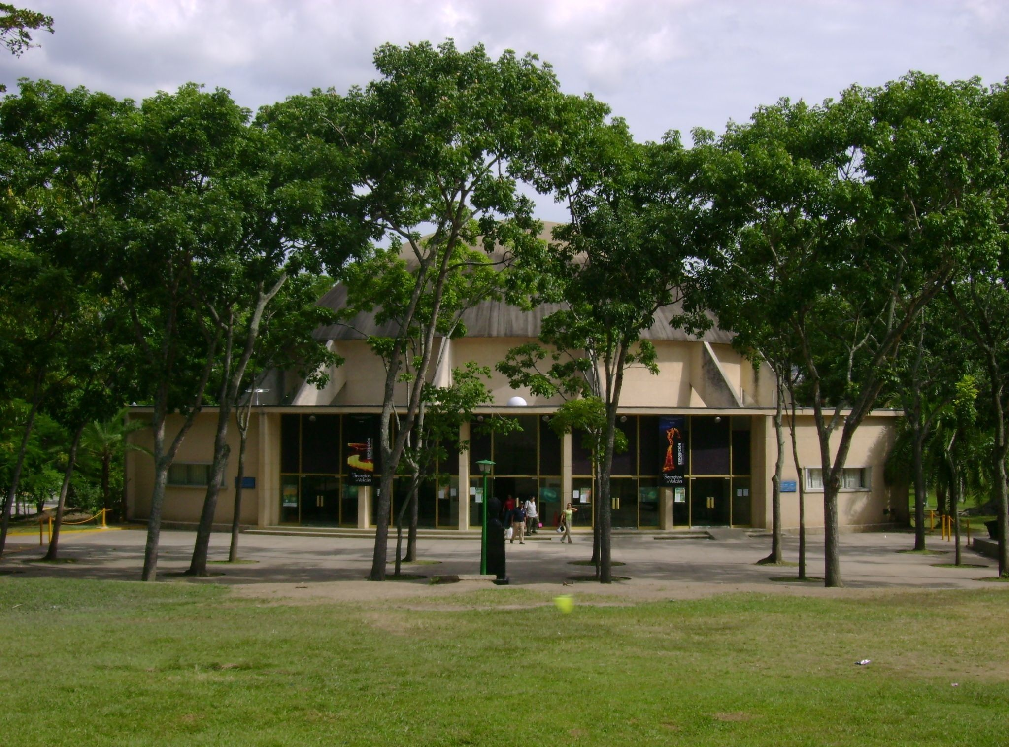 Outside of Humboldt planetarium of Caracas city.